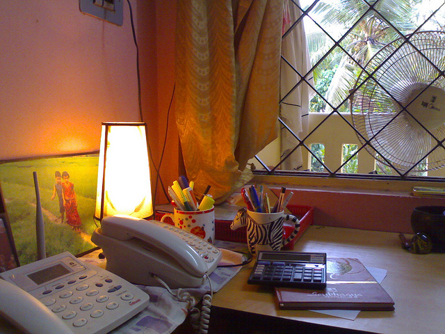 Nostalgic memories of the old way of living.